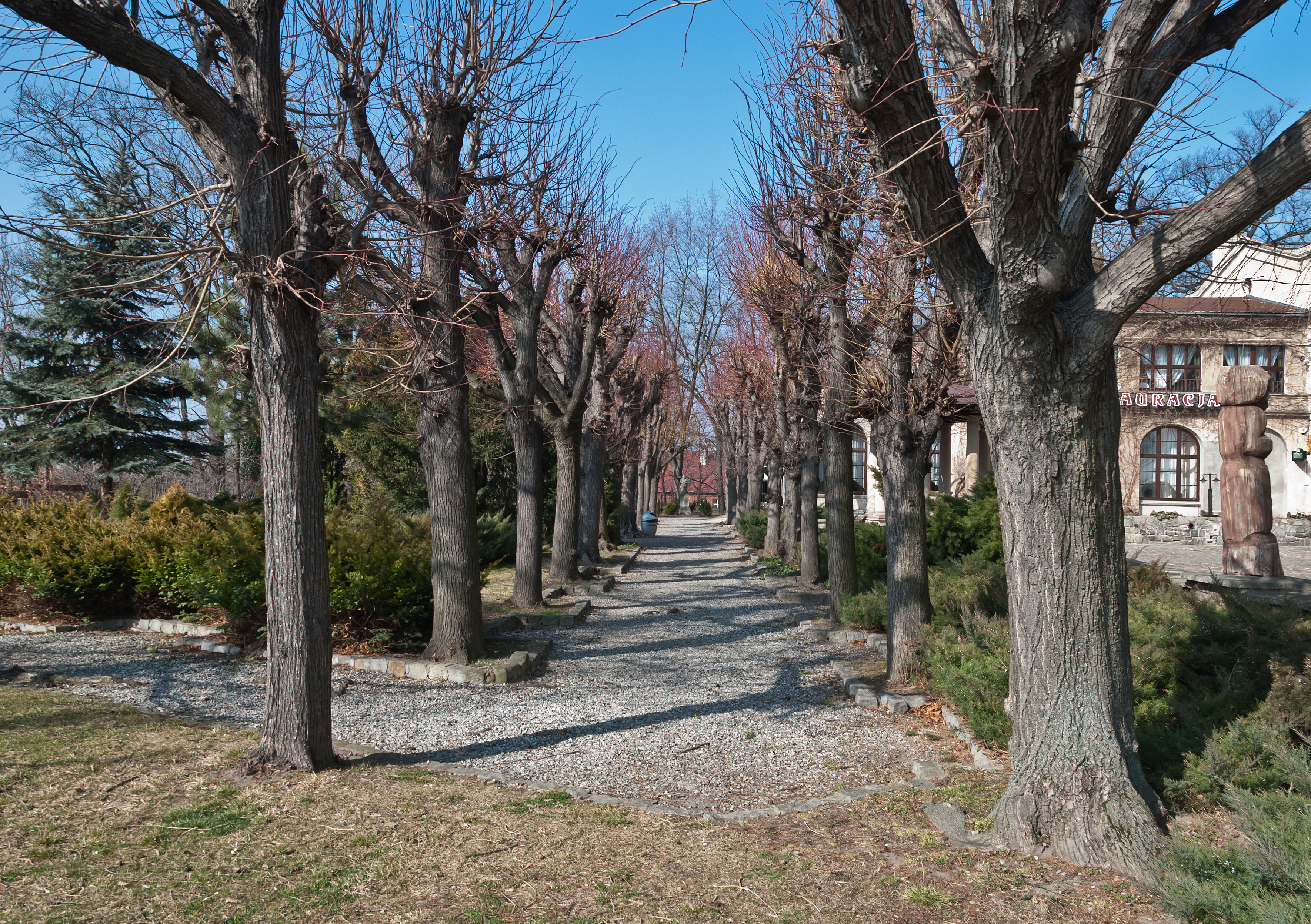 Park at the Otmuchów Castle